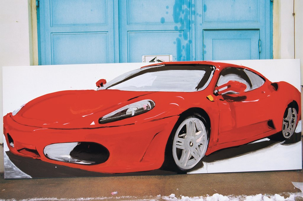 Tatjana Doll, Ferrari F430, 2005, Enamel & acrylic on canvas, 170 x 450 cm